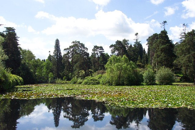 Marshal's Lake, Bedgebury Pinetum, Kent